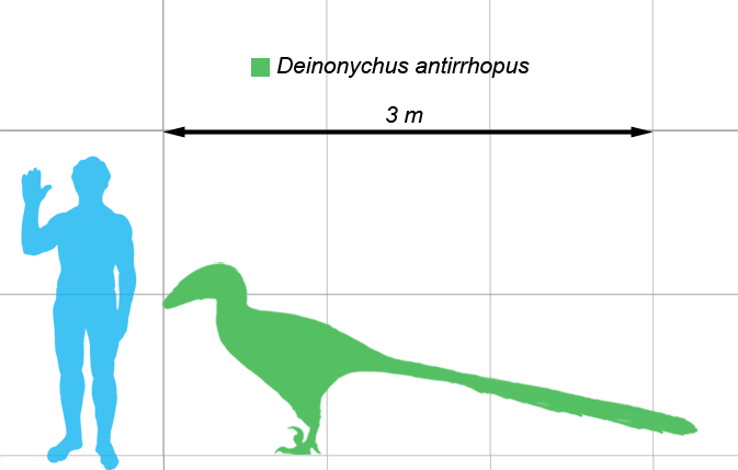 Size comparison of Deinonychus to a human. Each grid segment represents 1 square meter.